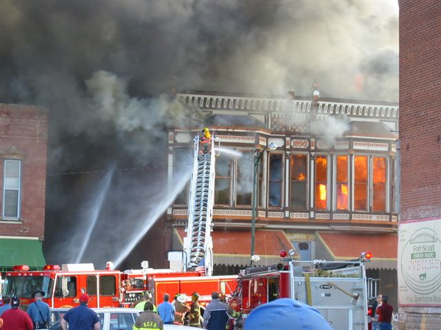 Downtown Fort Scott, Kansas on fire.